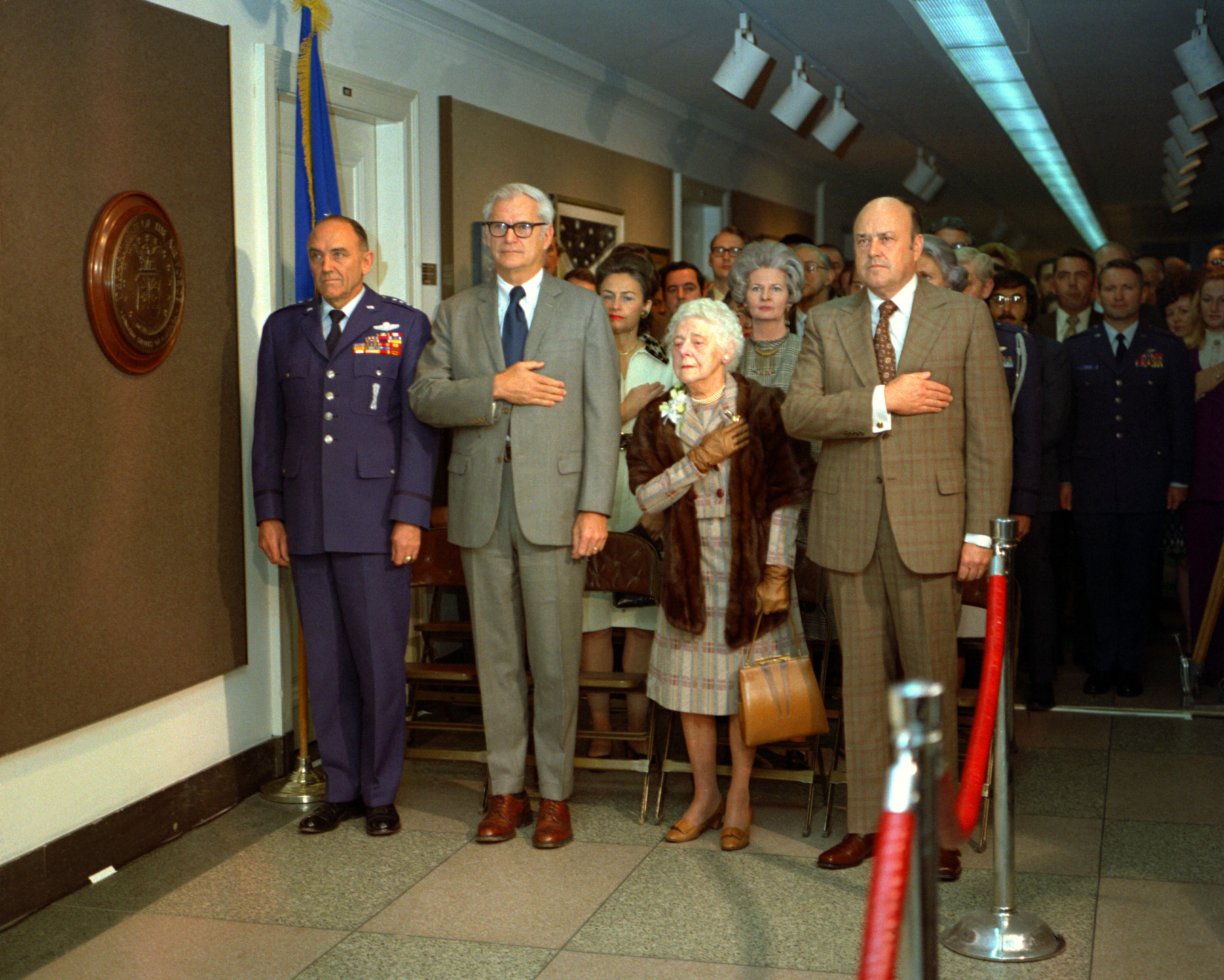 U.S. Air Force Chief of Staff General John Dale Ryan and U.S. Air Force Secretary Robert Channing Seamans and U.S. Secretary of Defense Melvin Robert Laird at a ceremony honoring General Hap Arnold at The Pentagon on a dedication ceremony for Henry "Hap" Arnold Corridor in honor of The Five-Star General of The Air Force Henry "Hap" Arnold Corridor along with Henry "Hap" Arnold widow Eleanor P. Arnold.